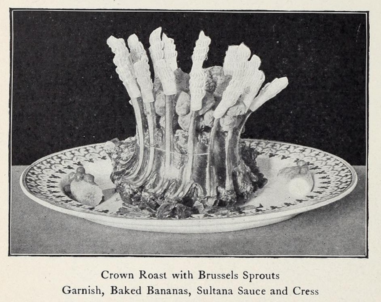 Crown roast of lamb chops sewn together in a circle.